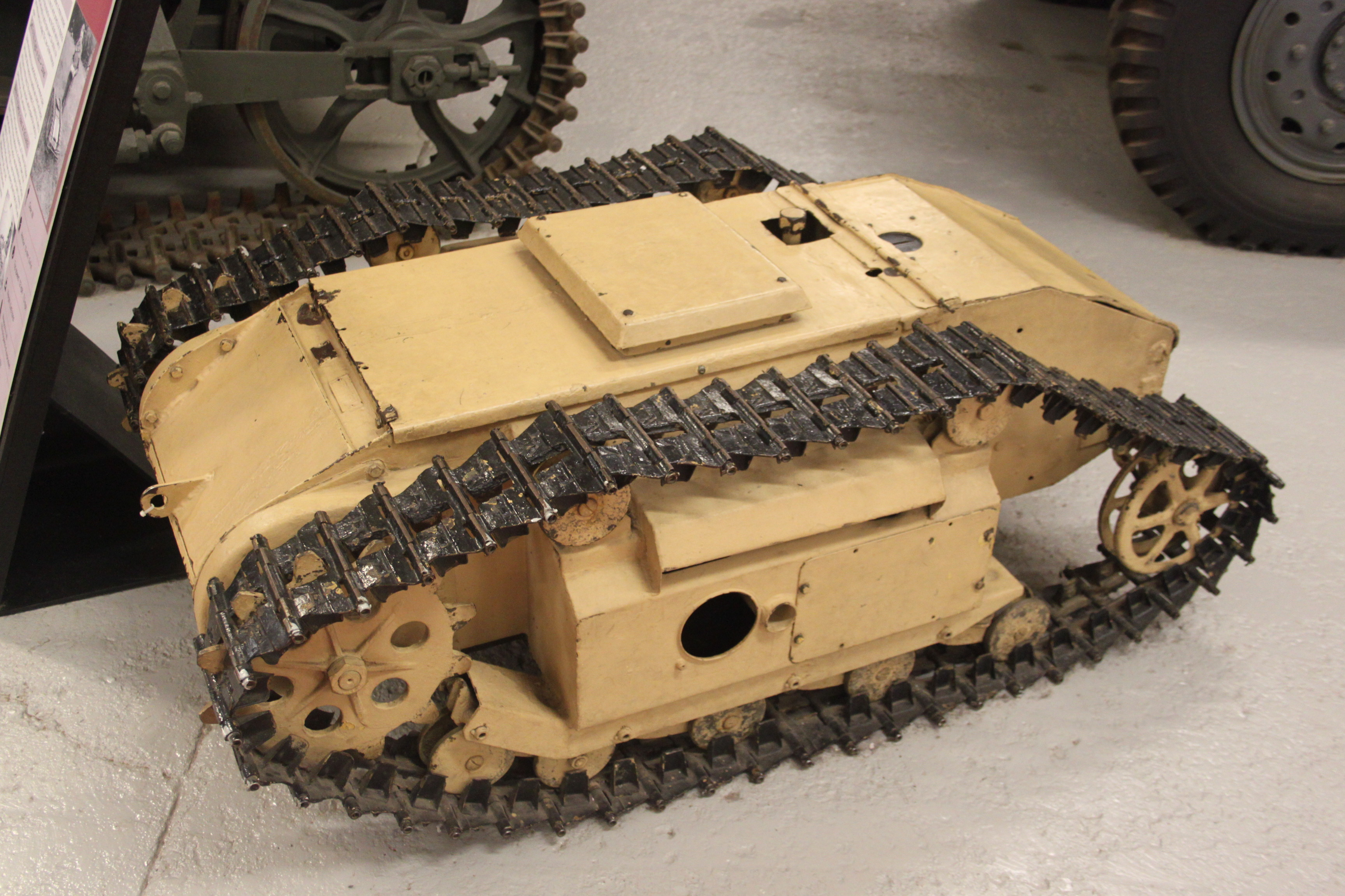 Sonderkraftfahrzeug 303 Goliath in the Tank Museum